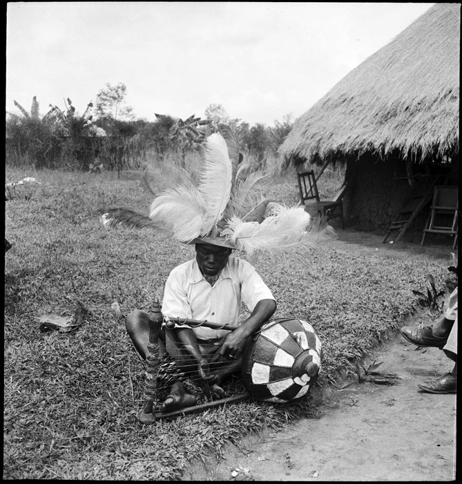 A nyatiti player in Nyanza (Kenya) - 1936